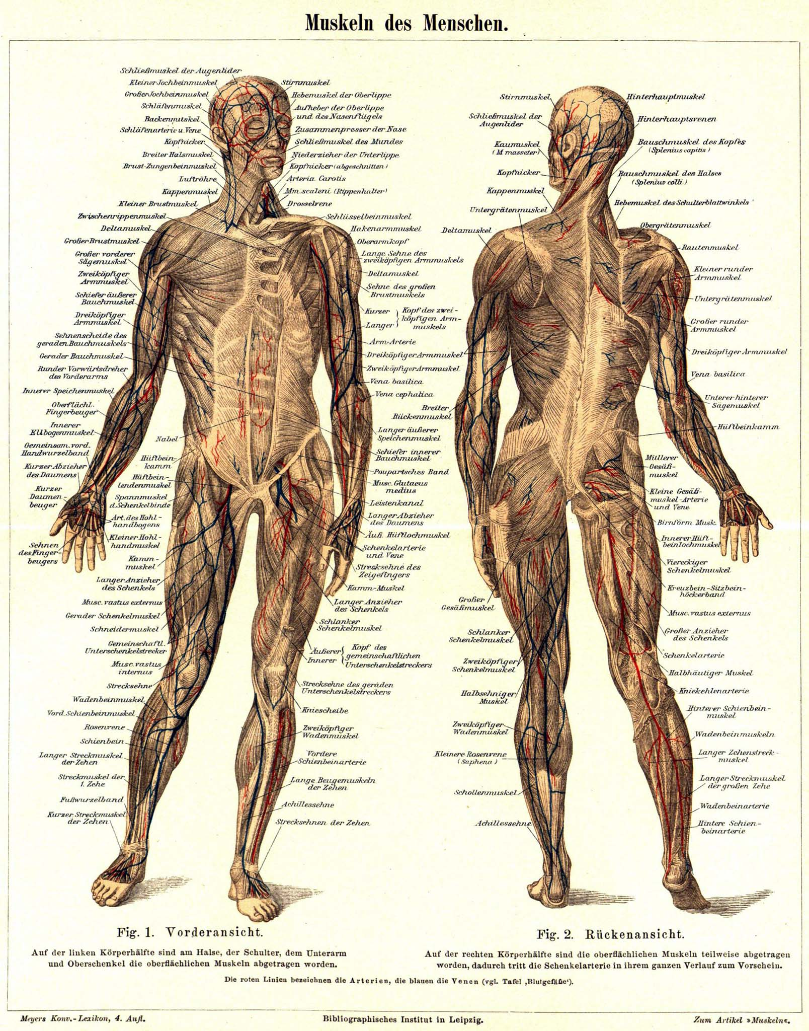 Human muscles.